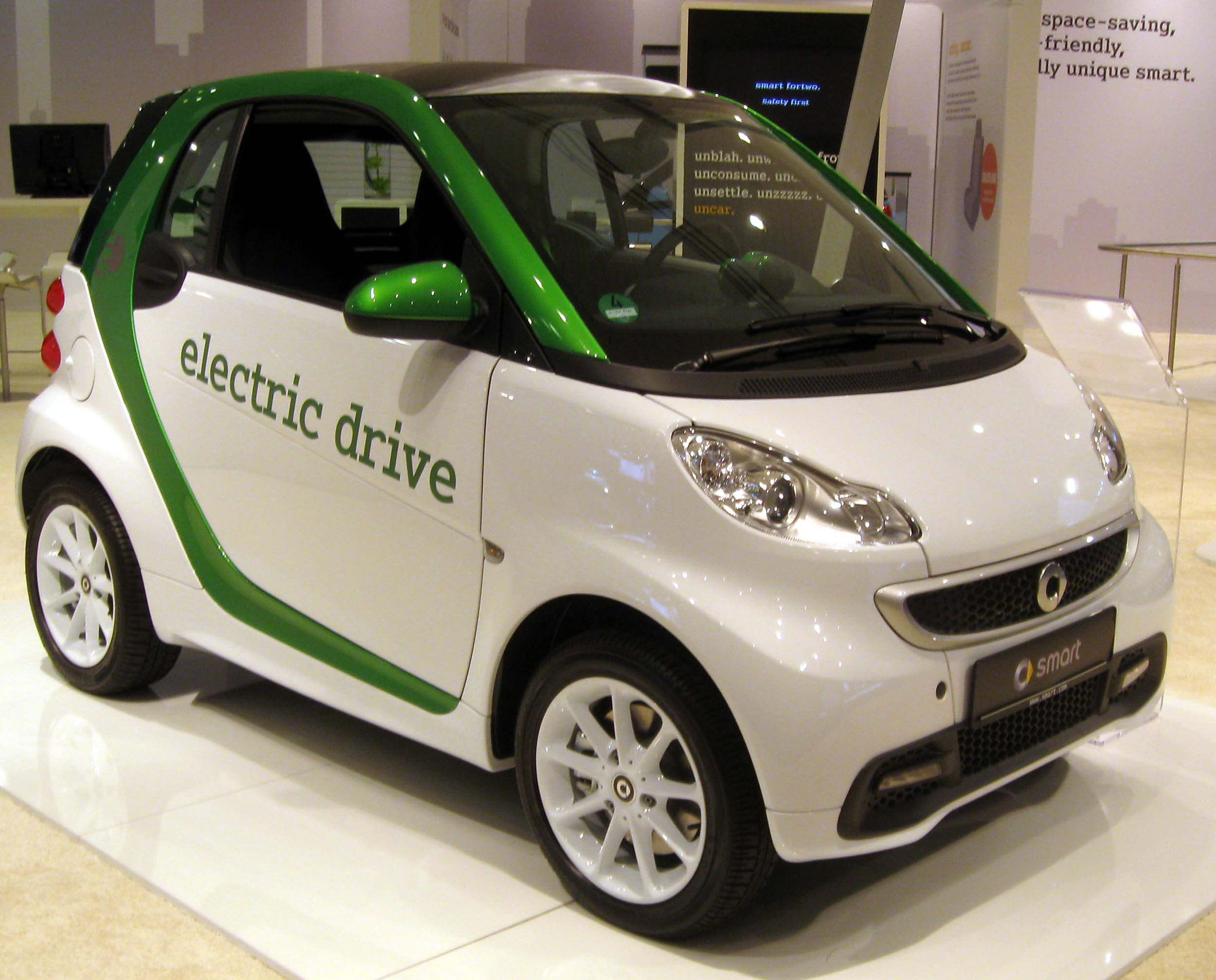 2013 Smart Fortwo photographed at the 2012 New York International Auto Show.